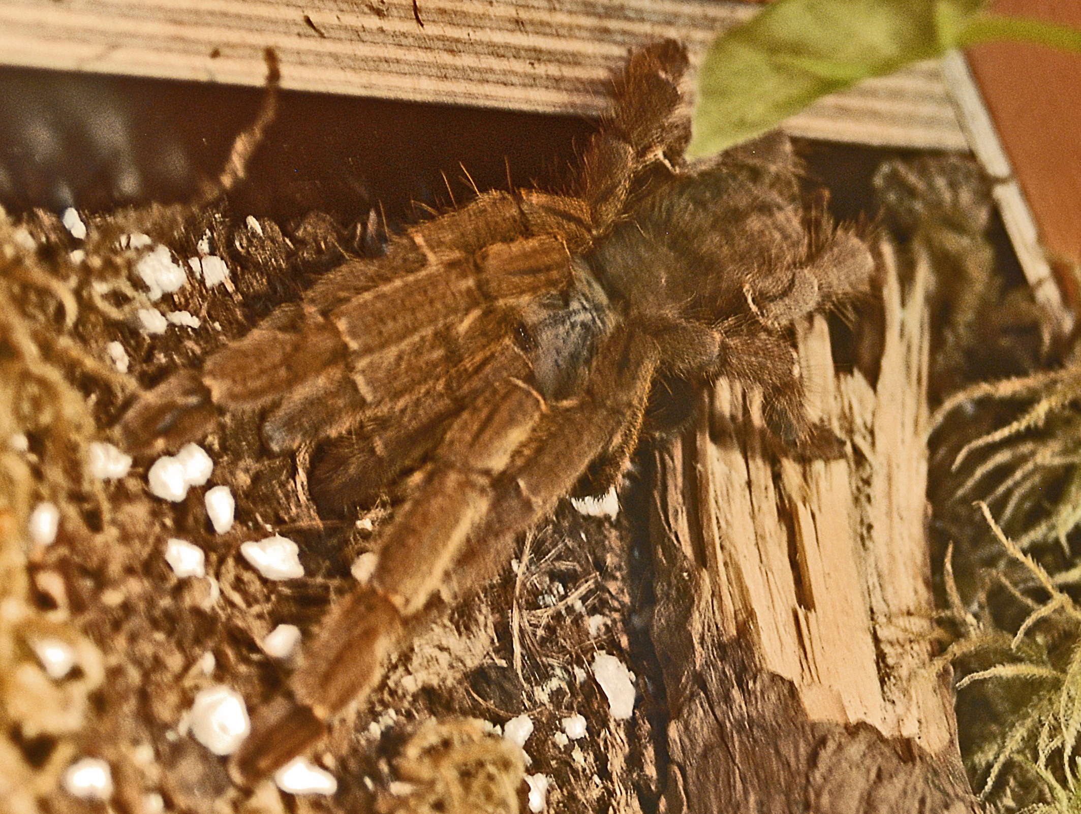 Haplopelma schmidti